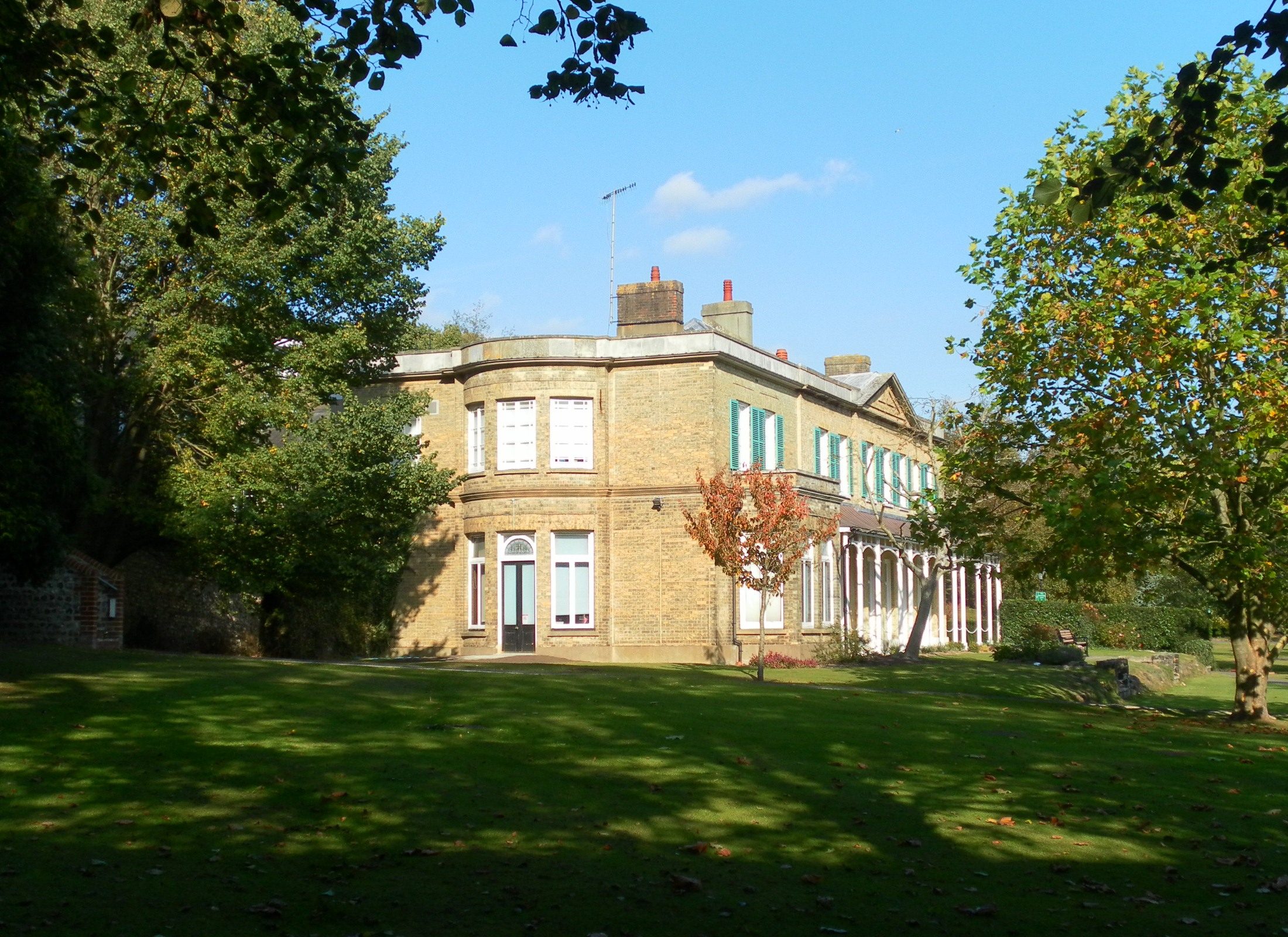 Moulsecoomb Place, Lewes Road, Moulsecoomb, City of Brighton and Hove, England. Photographed after restoration in 2011. This view shows the bow-fronted southern section, added in 1906 or 1913. Listed at Grade II by English Heritage (NHLE Code 1381668)